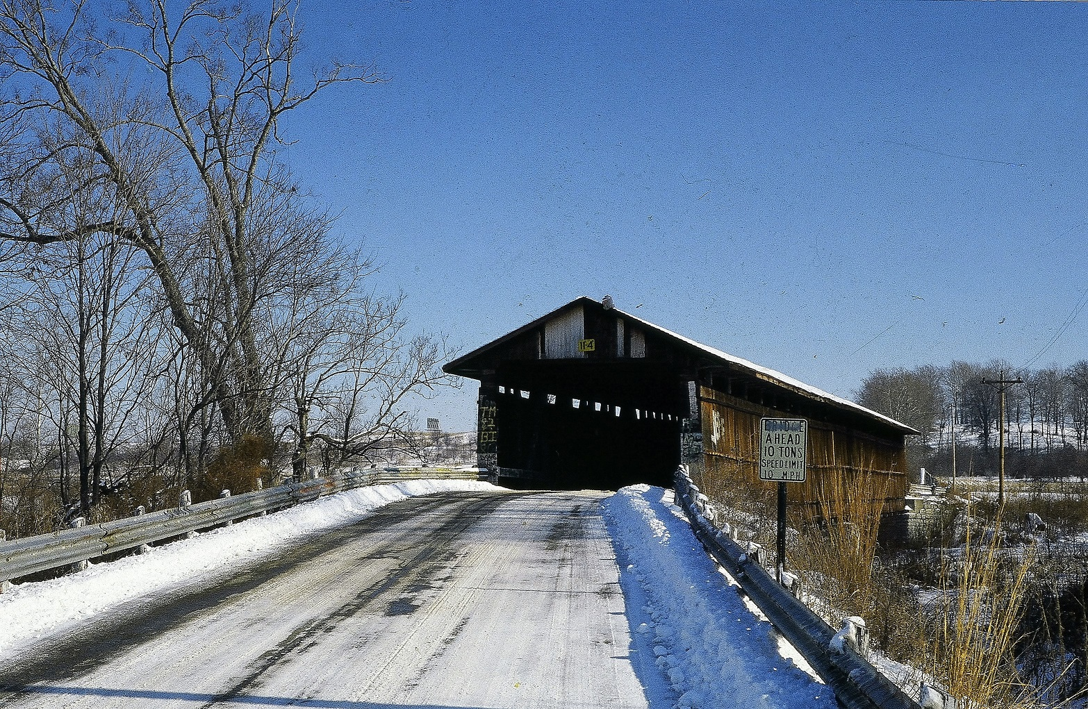 Winter 1983 West side